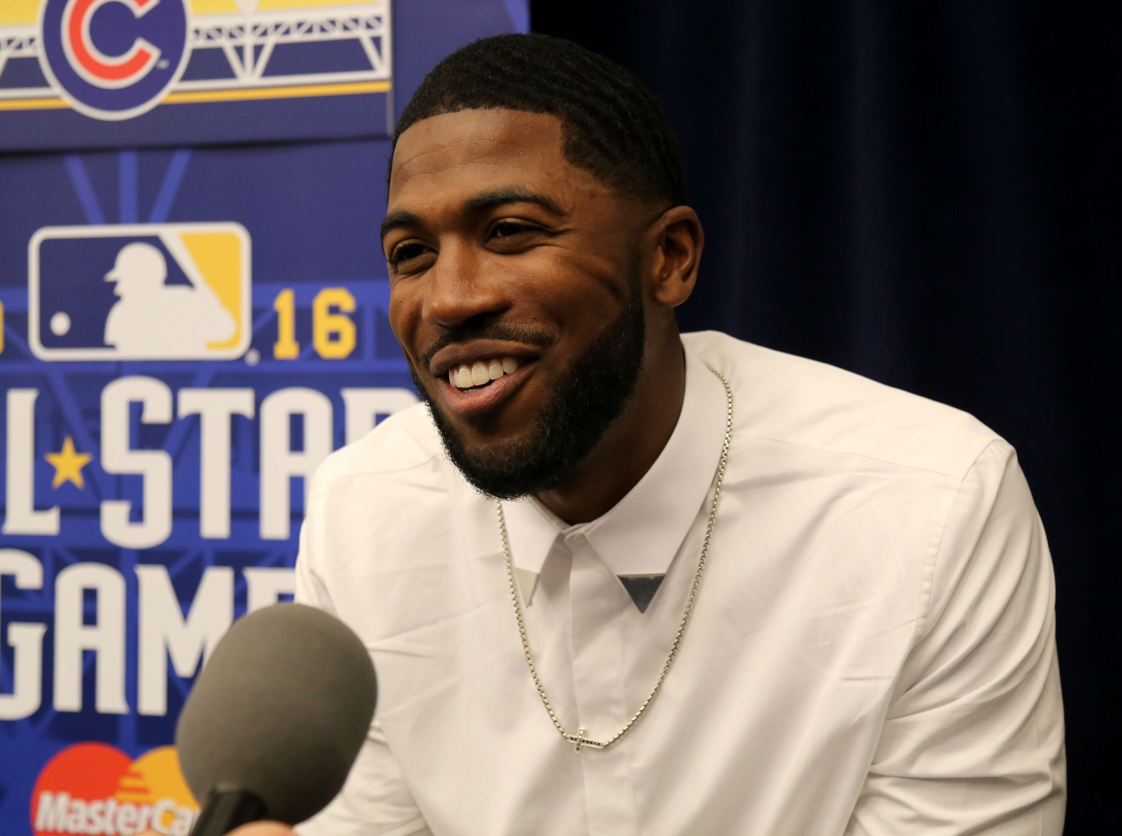 Cubs outfielder Dexter Fowler talks to reporters at 2016 All-Star Game availability.